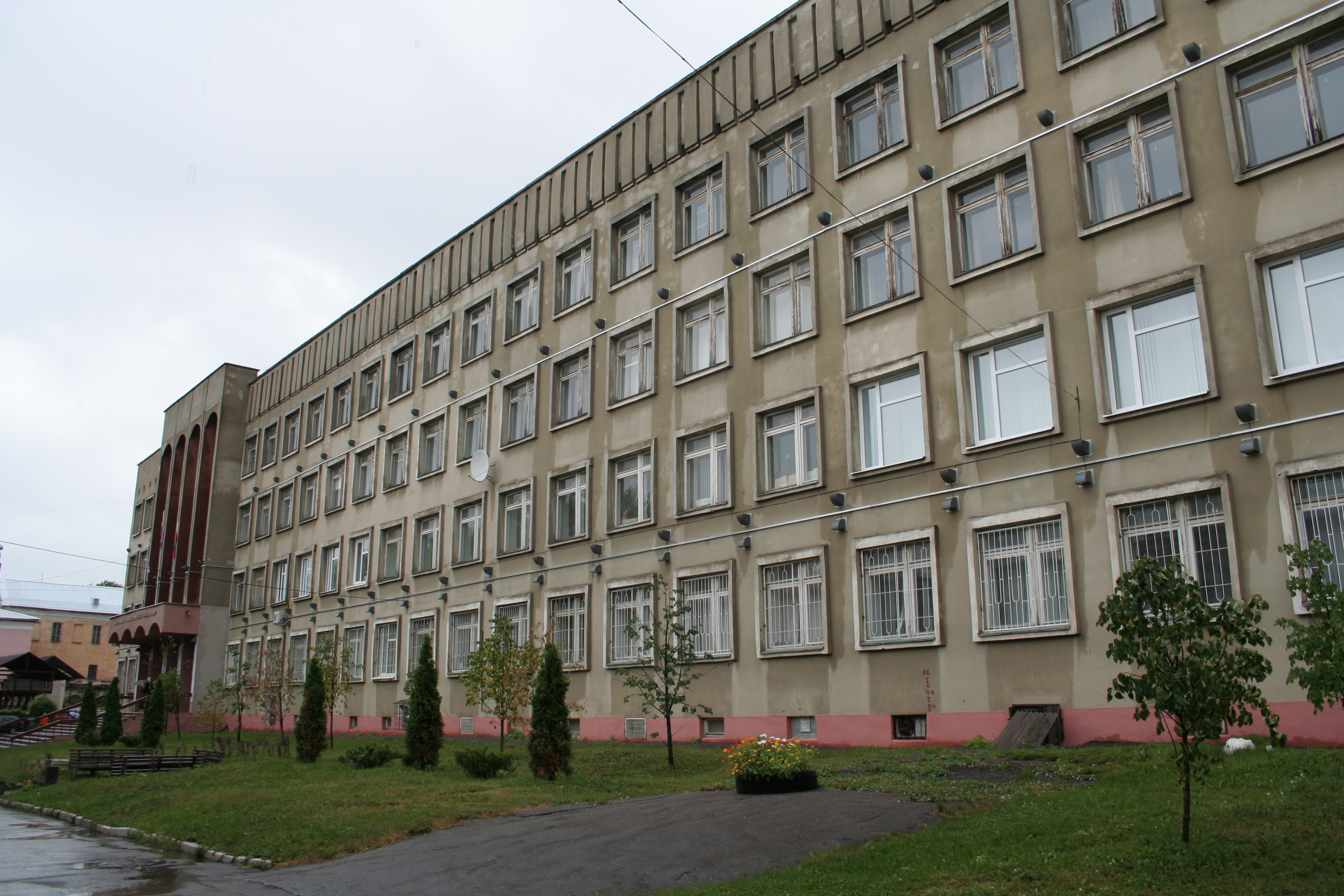 Campus buildings of the Kostroma State University in Kostroma, Russia.